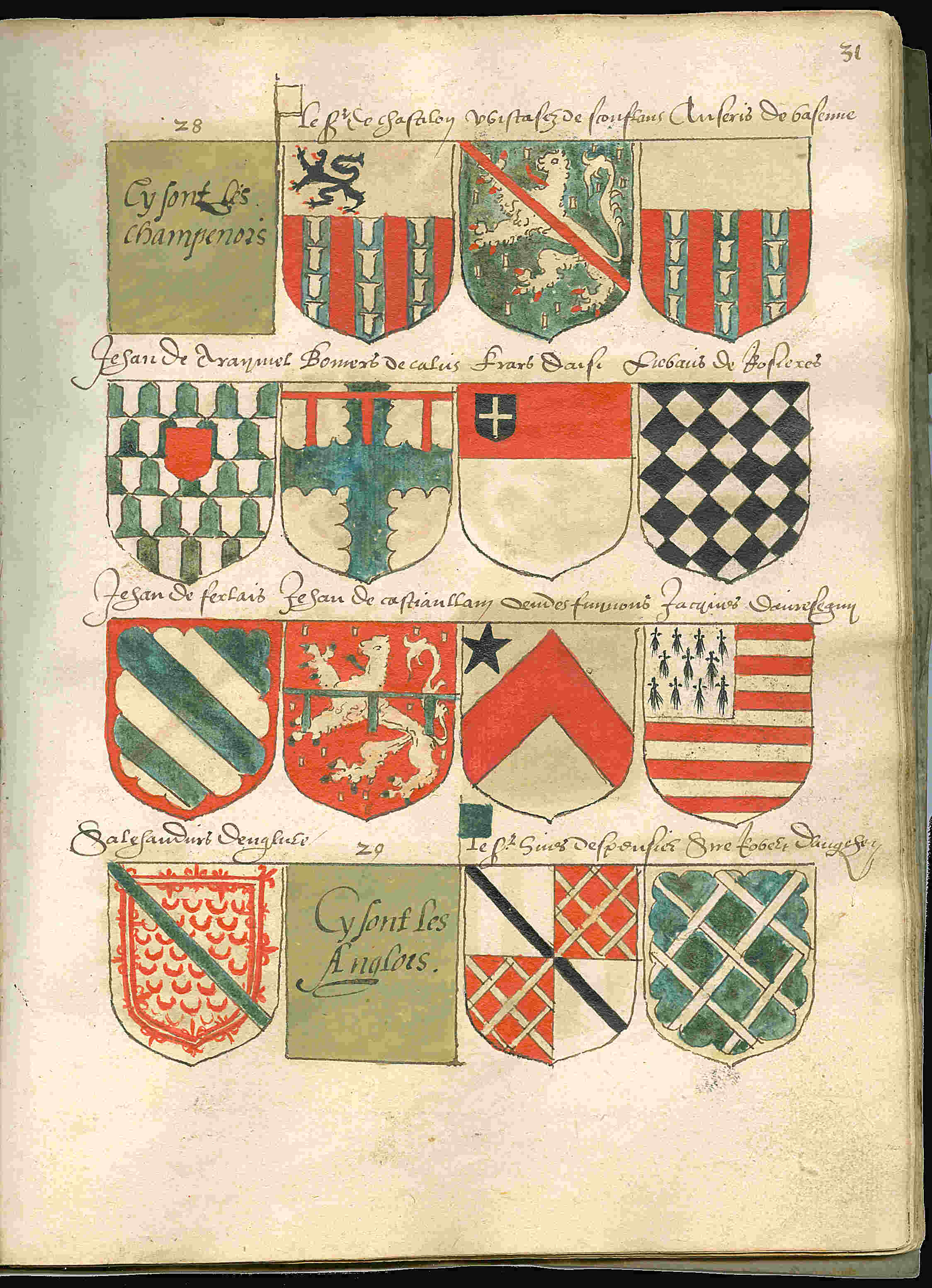 Page 31 from a copy of the Beyeren armorial / Wapenboek Beyeren from ca. 1600. The original Beyeren armorial from 1405 can be viewed at the website of the KB